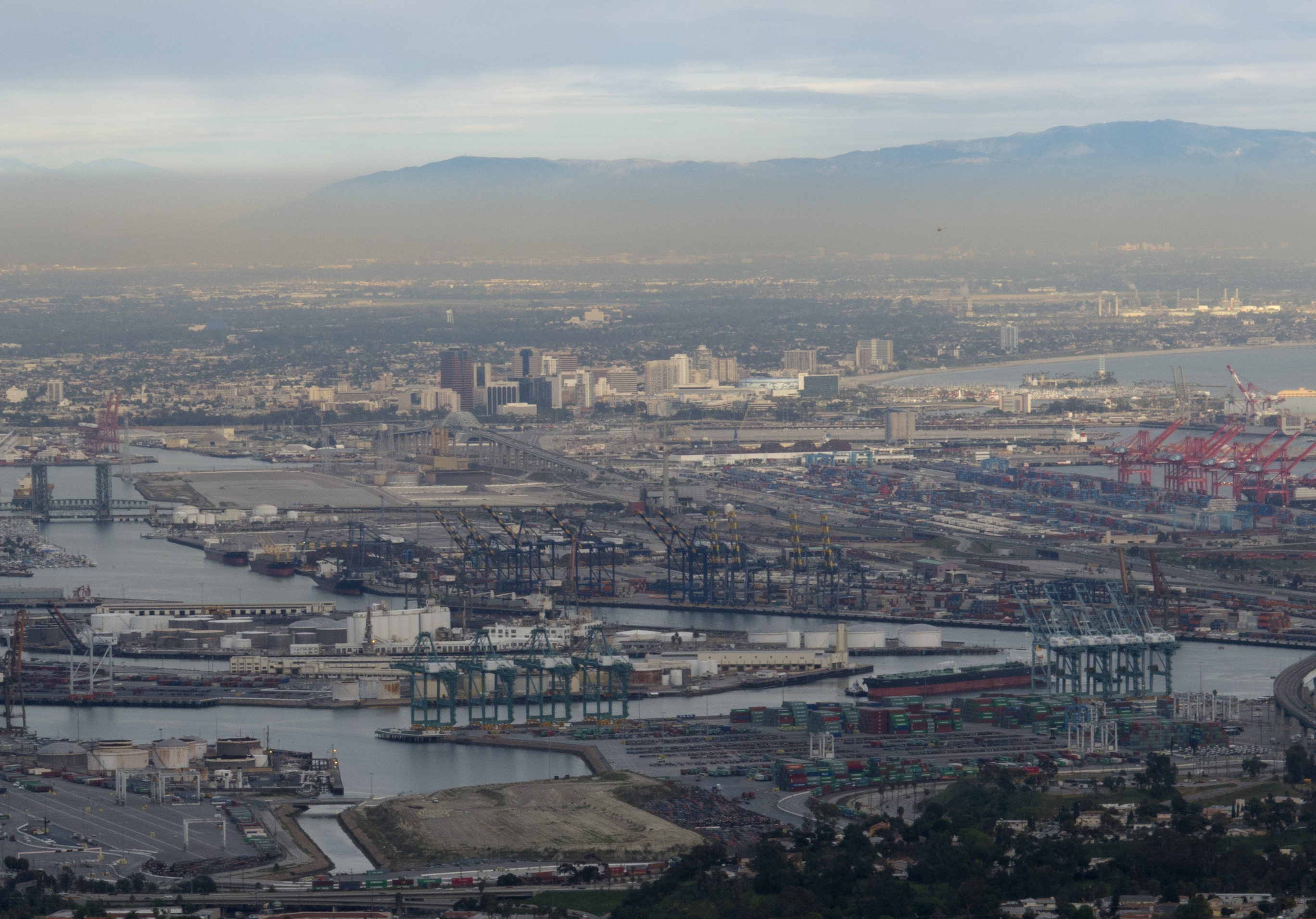 View of Port of Los Angeles and Long Beach from Palos Verdes